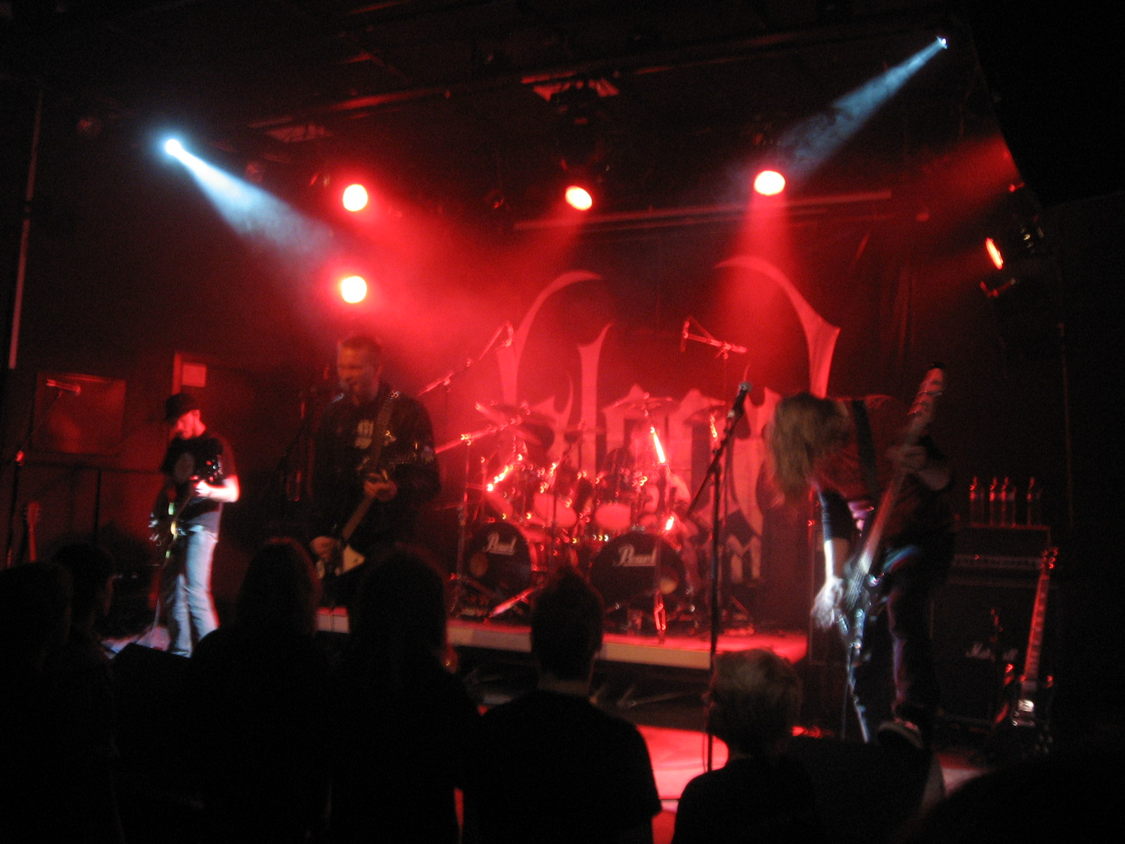 Blood Tsunami, the band of Bard Faust